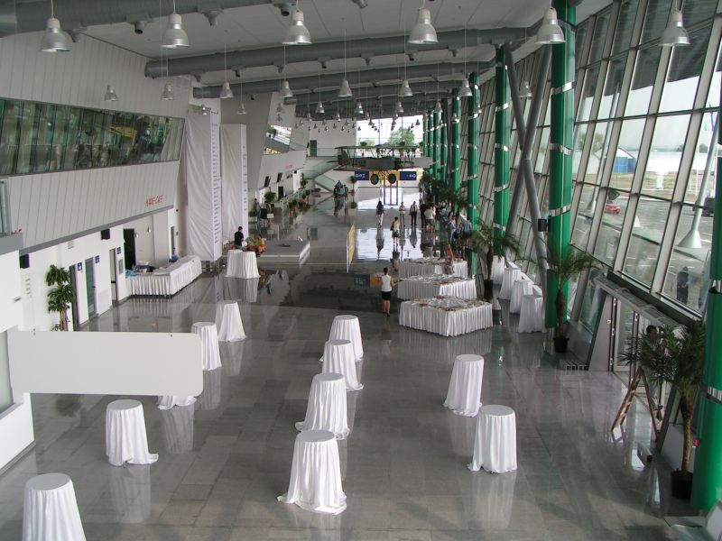 Photo of the interior of the new terminal at Plovdiv Airport